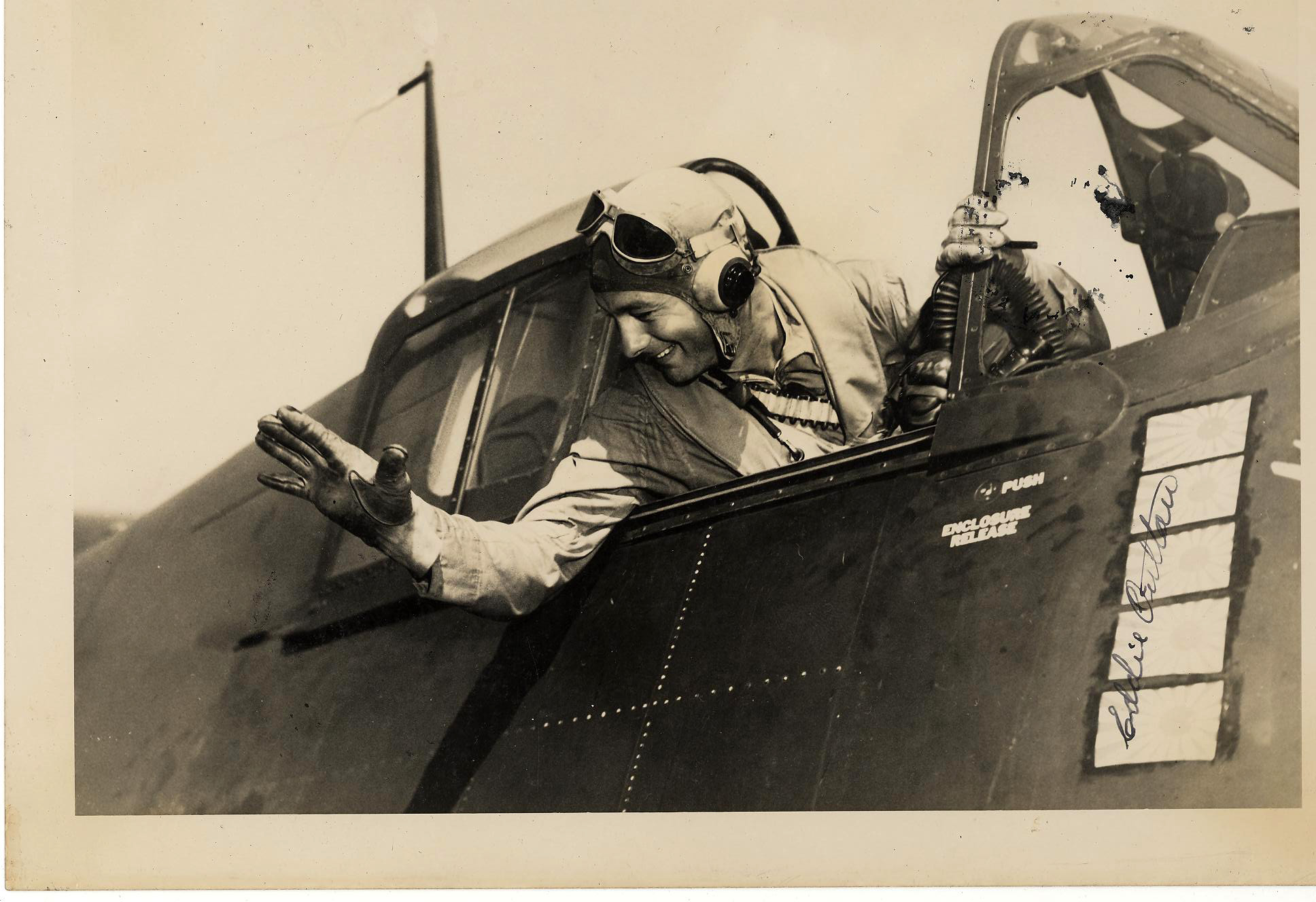 Edward C. Outlaw, commander of Fighting Squadron 32 (VF-32), pictured in a Grumman F6F Hellcat displaying five kills. The photo was taken aboard the light aircraft carrier USS Langley (CVL-27) on 15 April 1944.